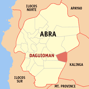 Map of Abra showing the location of Daguioman